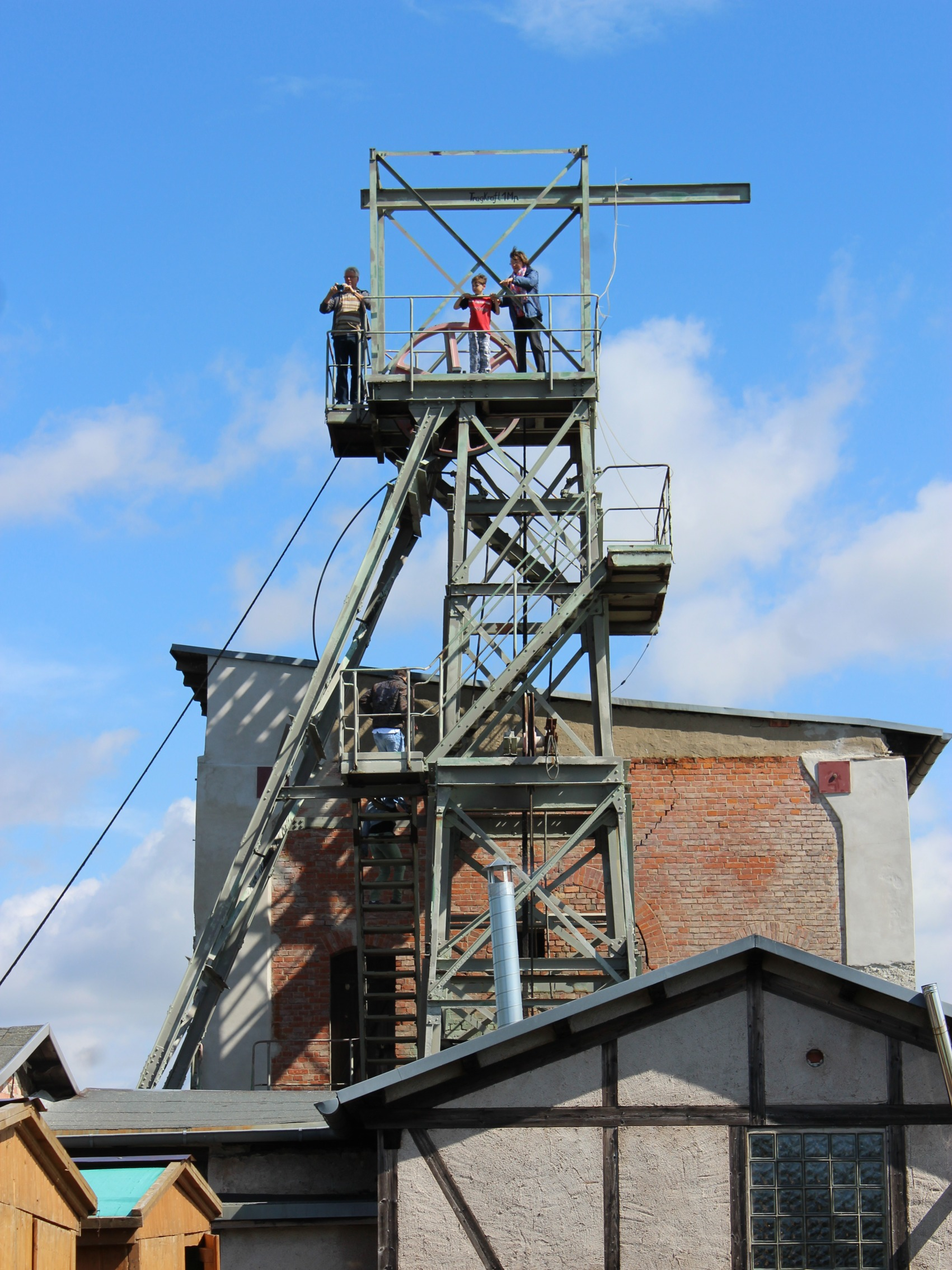 Helbra, Schmid pit, shaft tower